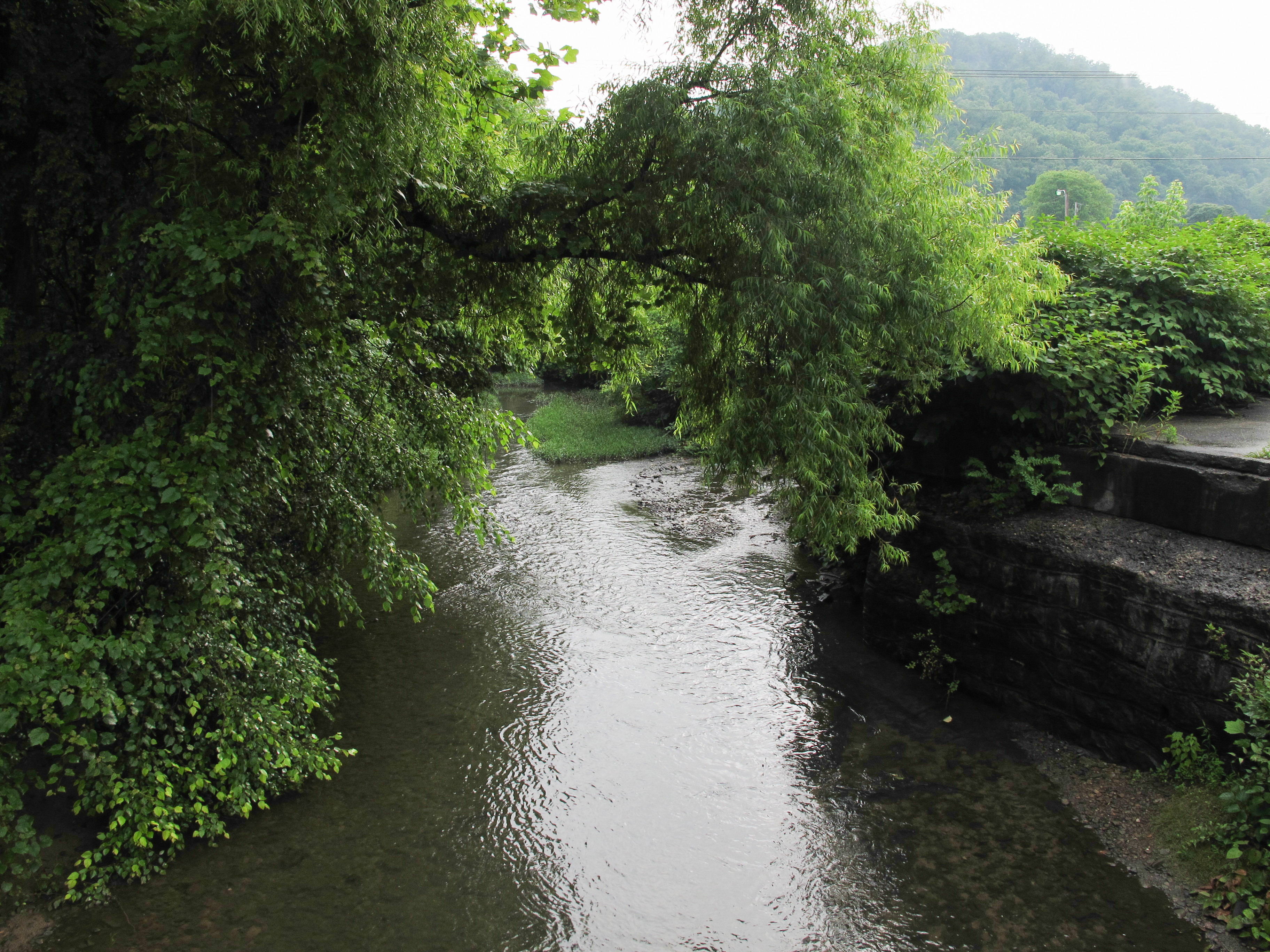 Campbells Creek near Coal Fork, West Virginia, as viewed upstream from Point Lick Drive (County Road 73/5).